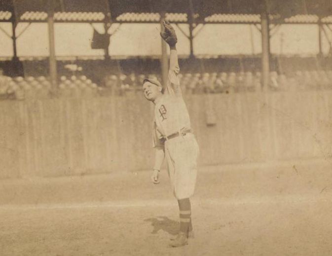 Ralph Mattis playing for the Pittsburgh Rebels.